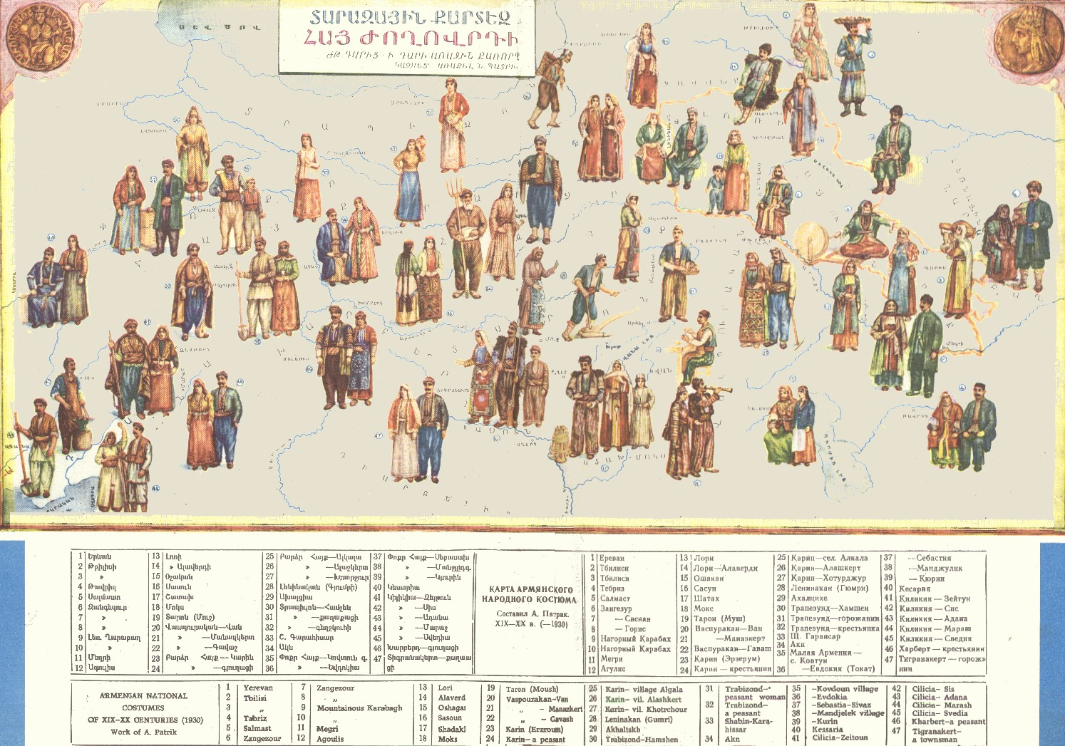 The map of Armenian National Costume